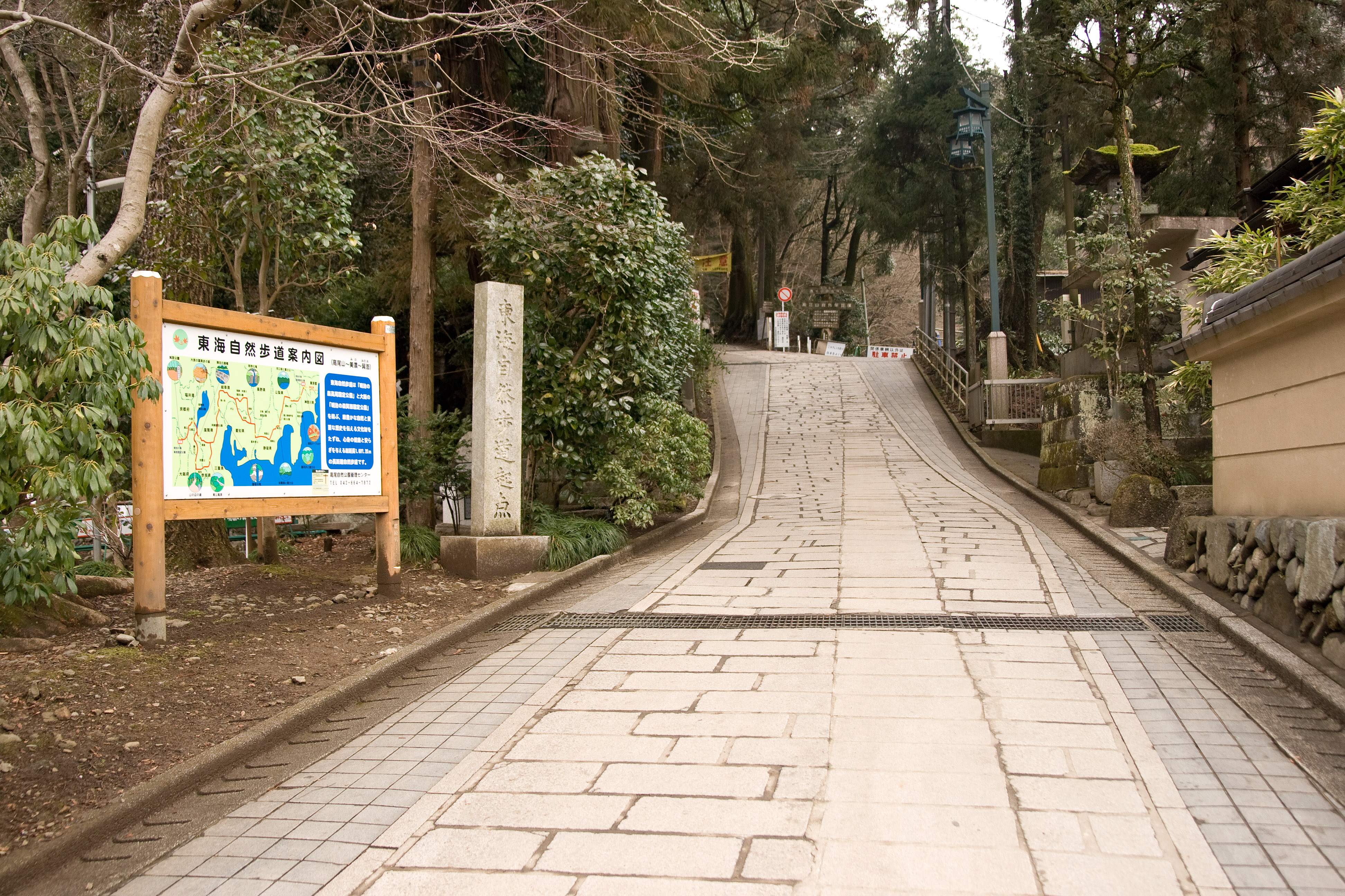 The starting point of Tokai Nature Trail in Mt.Takao, Hachioji, Tokyo, Japan.